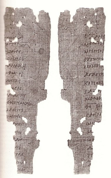 image of Papyrus 65 from the 3rd century CE